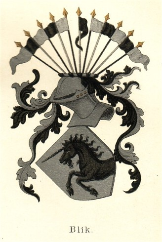 Coat of arms of the Blik family.